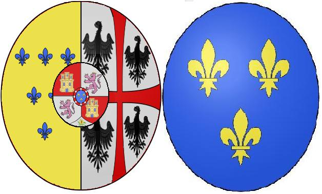 Arms of Louise Élisabeth of France (1727-1759), Duchess of Parma